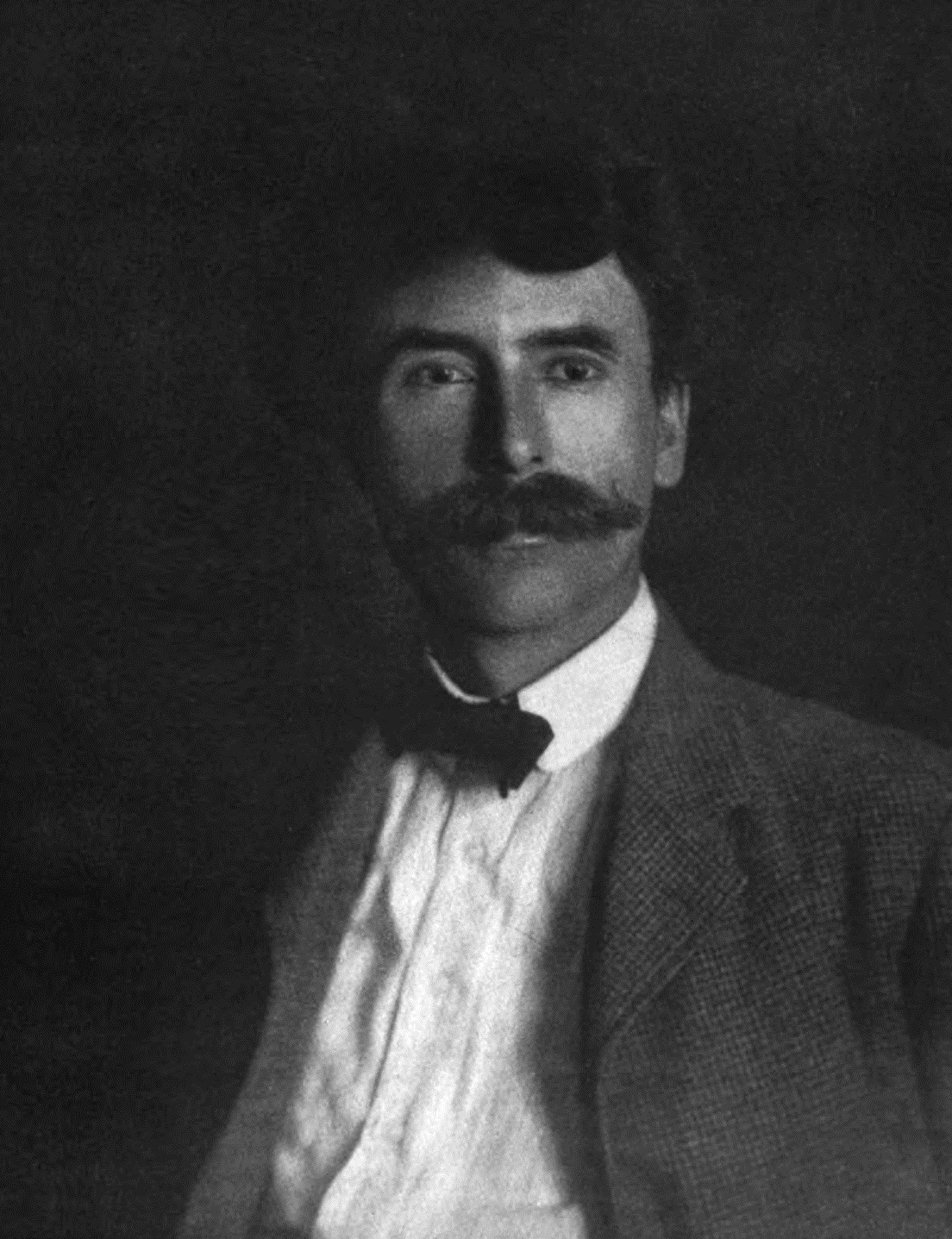 Ernest Thompson Seton